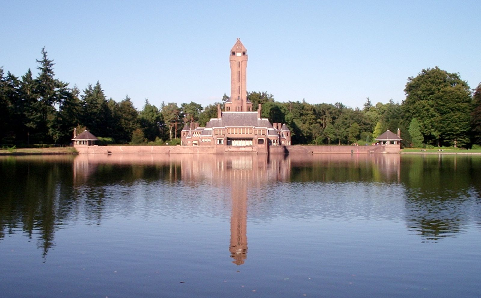 St. Hubertusslot (St. Hubertus Hunting Lodge) at National Park De Hoge Veluwe, The Netherlands. Designed by H.P. Berlage in 1914. Photo taken at a trip to De Hoge Veluwe